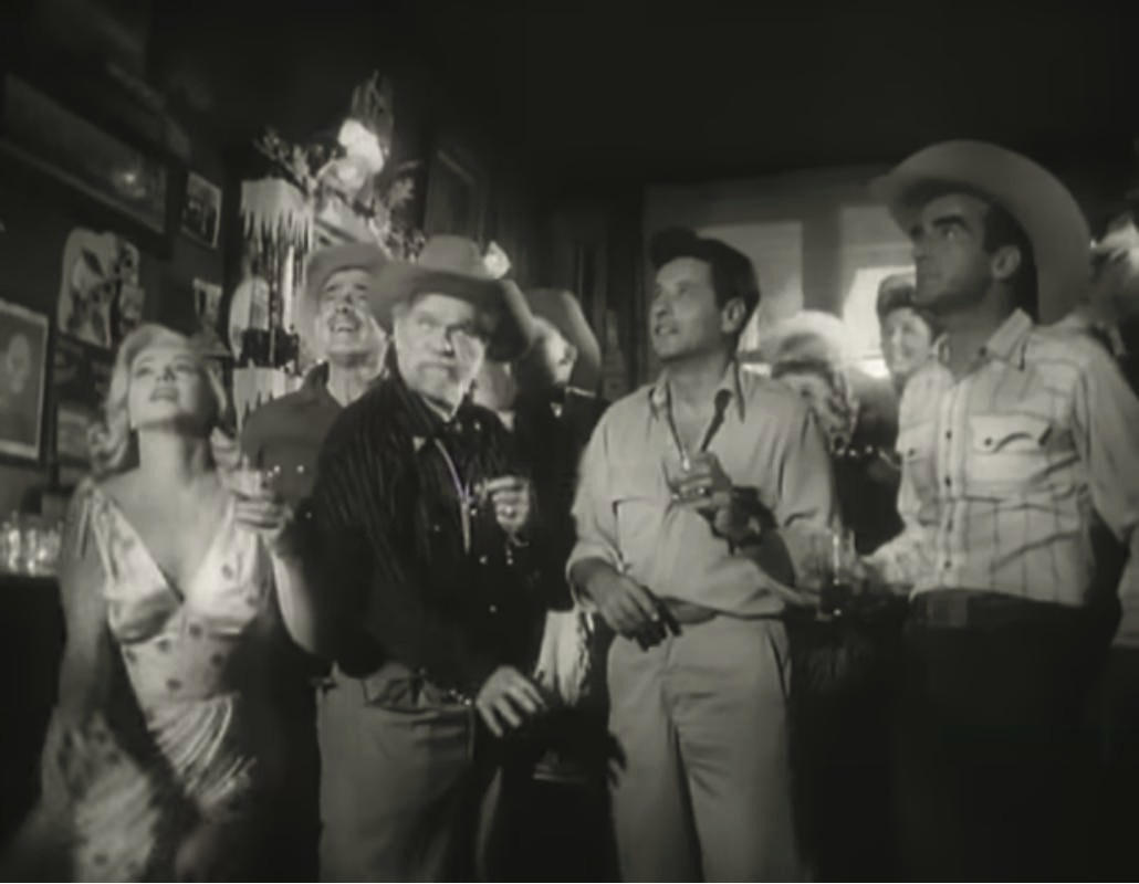 Left to right: Marilyn Monroe, Clark Gable, James Barton, Eli Wallach, and Montgomery Clift in The Misfits (1961) - trailer (cropped screenshot)